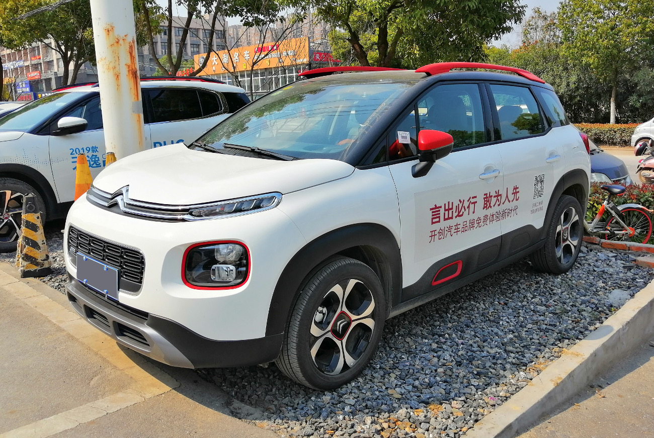 Citroën C4 Aircross CN photographed in Hefei, Anhui province, China.